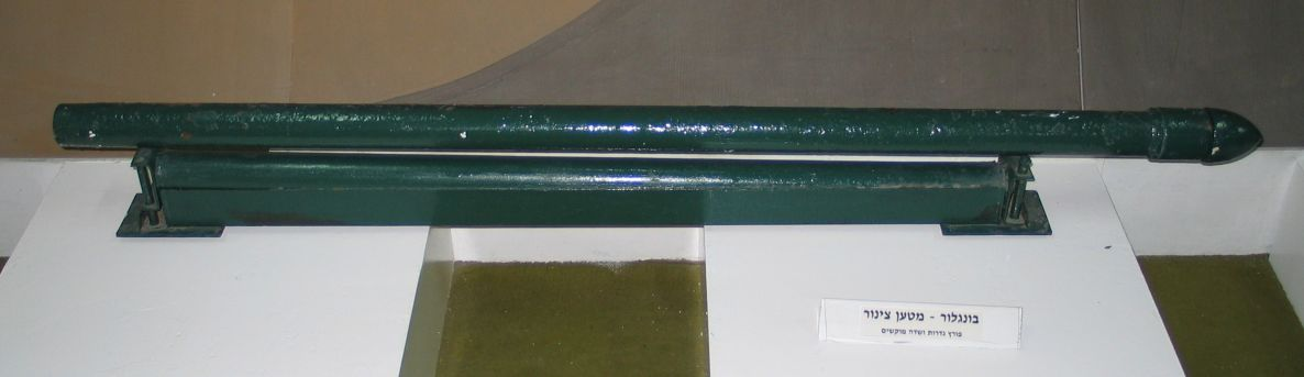 Description: "Bangalore torpedo" antipersonnel mine clearing charge in Batey ha-Osef Museum, Tel Aviv, Israel. 2005. Source: Photo by me, User:Bukvoed.